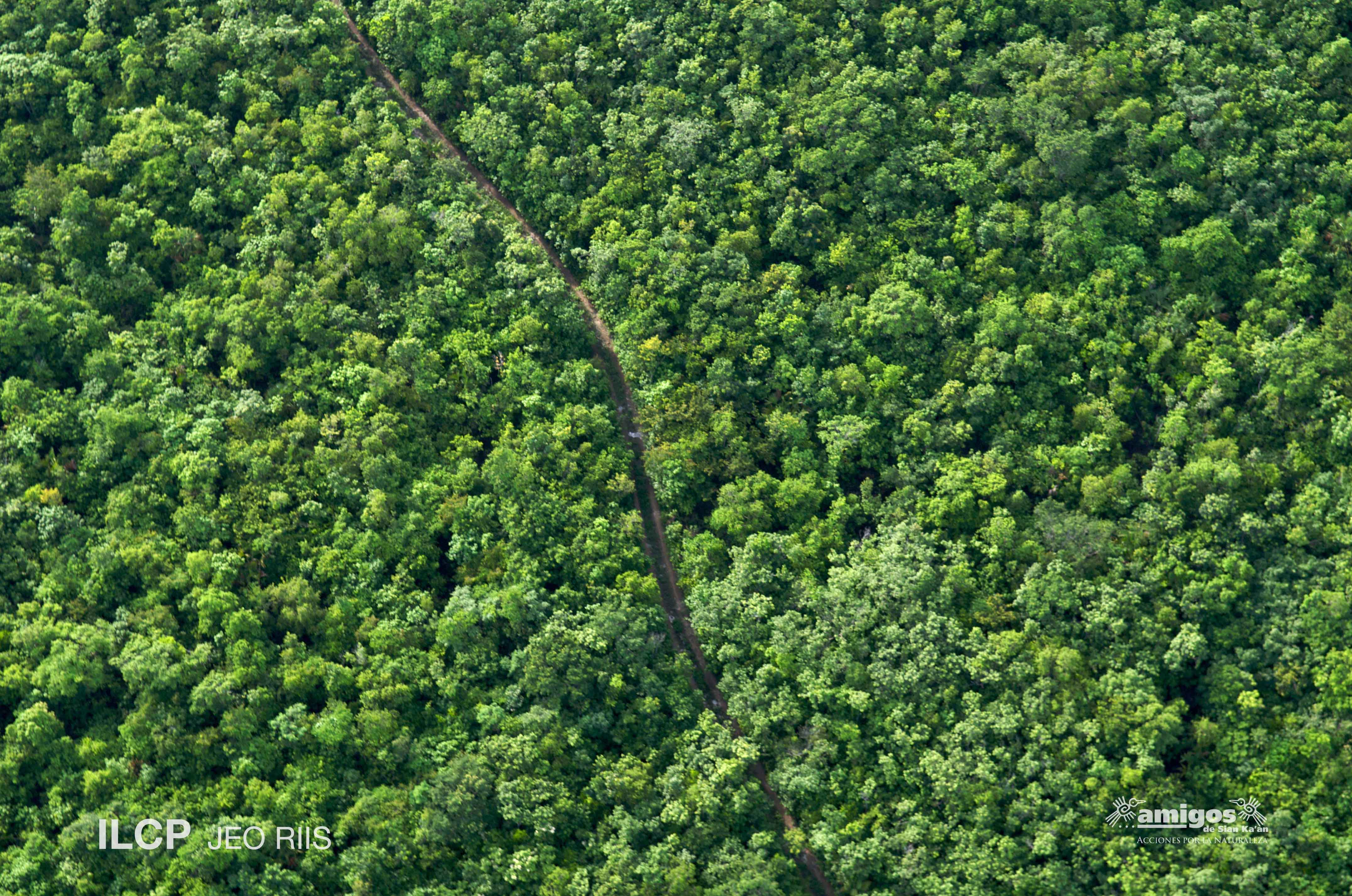 Mayan Forest